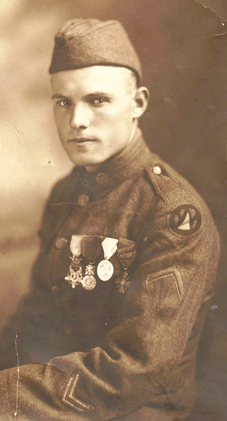 WWI Medal of Honor recipient Charles D. Barger. He wears the Medal of Honor, the French Médaille militaire, the Montenegrin Medal for Military Bravery and the French Croix de guerre with two bronze palms.